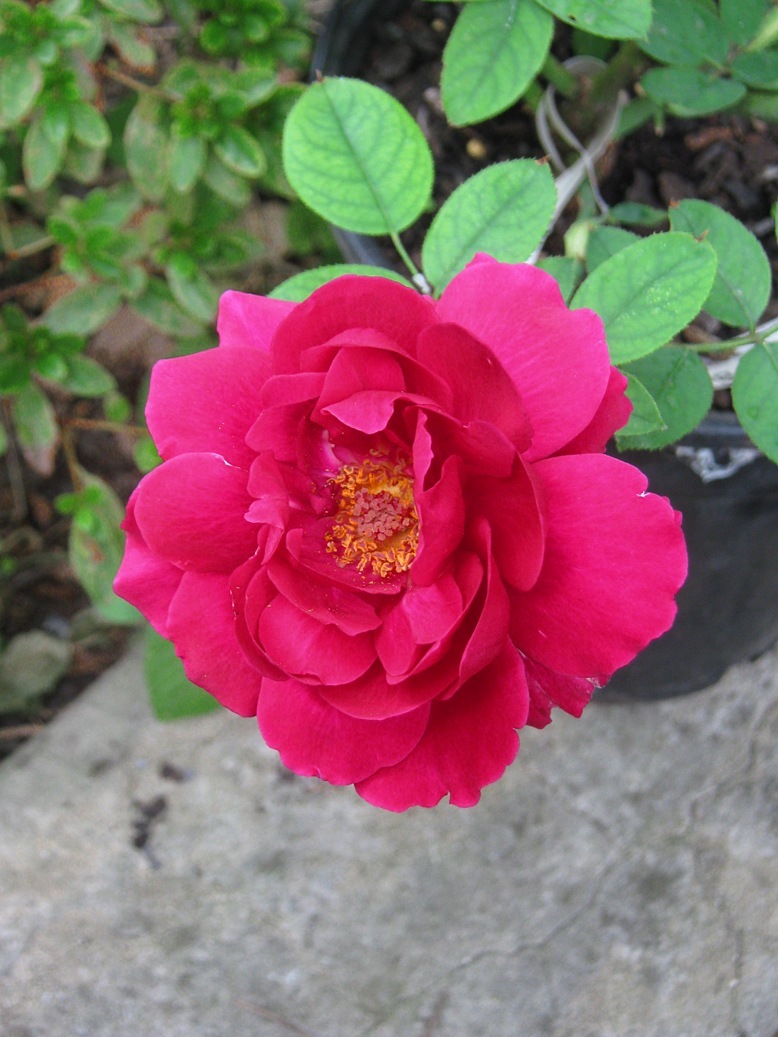 Rose 'Herbert Brunning', Hybrid Tea by Clark 1940; photographed in St Kilda, Victoria